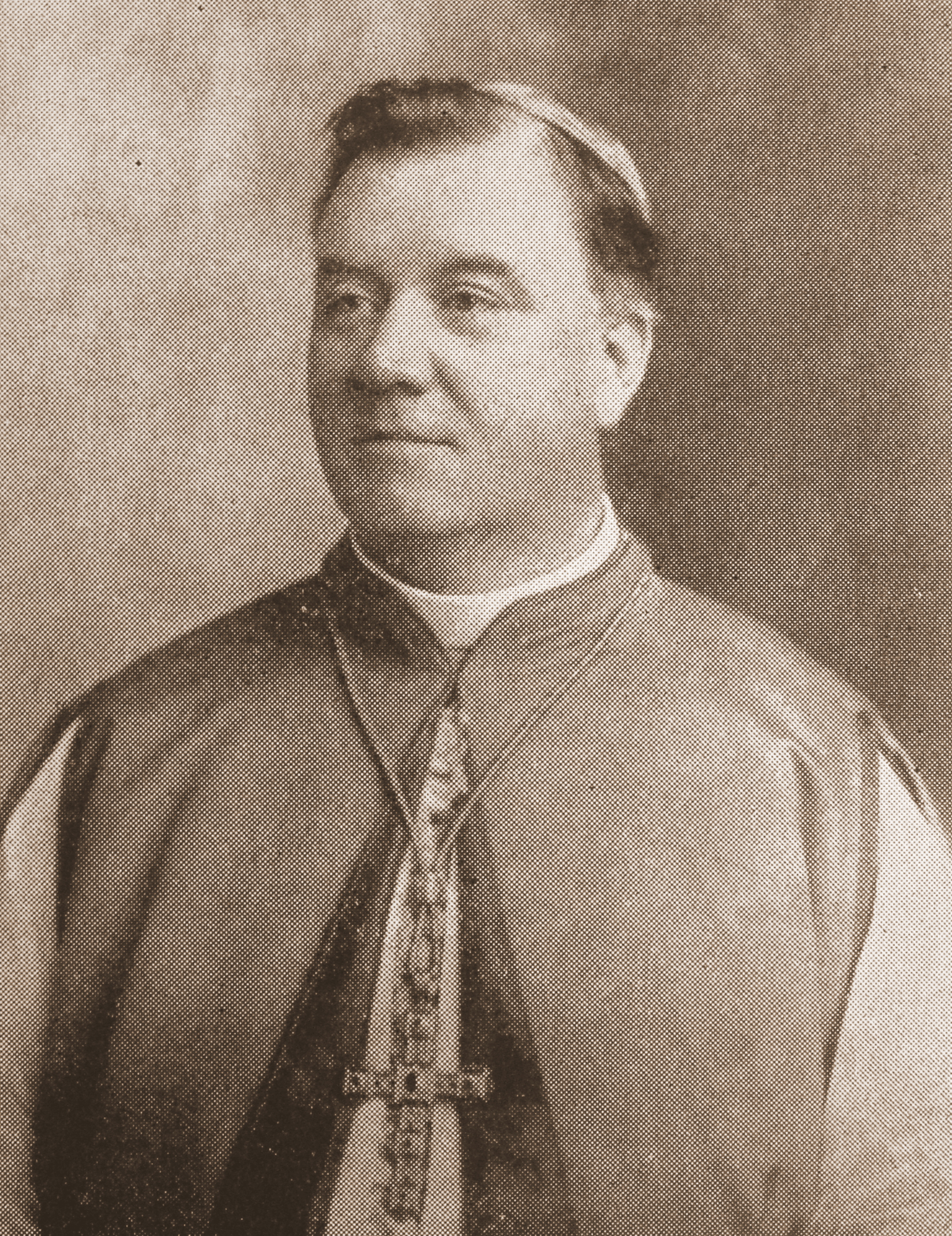 A photograph of William H O'Connell during his tenure as rector of the North American College in Rome (1895–1901)